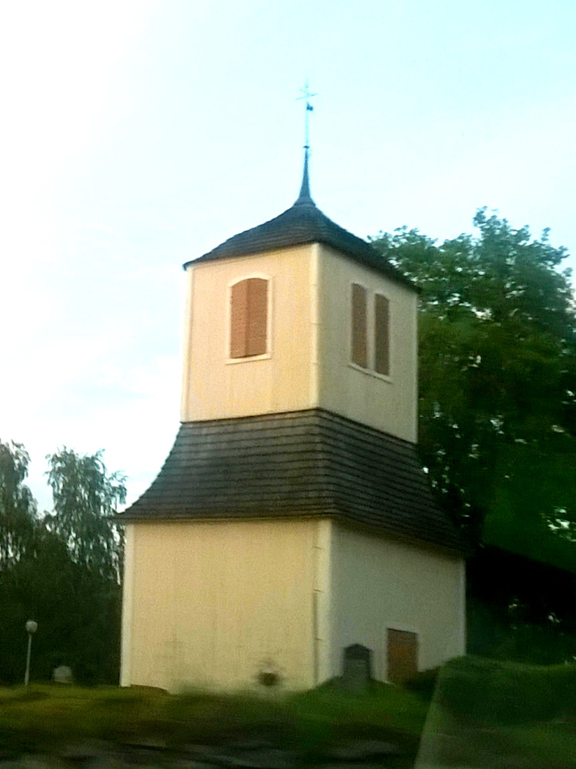 Bell towerof the Bromarv church in Raseborg, Finland